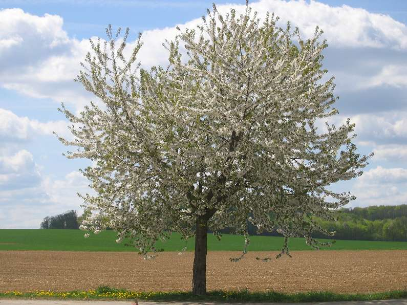 This tree is a cherry tree.